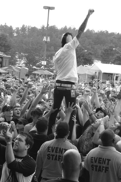 Anti-Flag bass guitarist, Warped Tour 2006